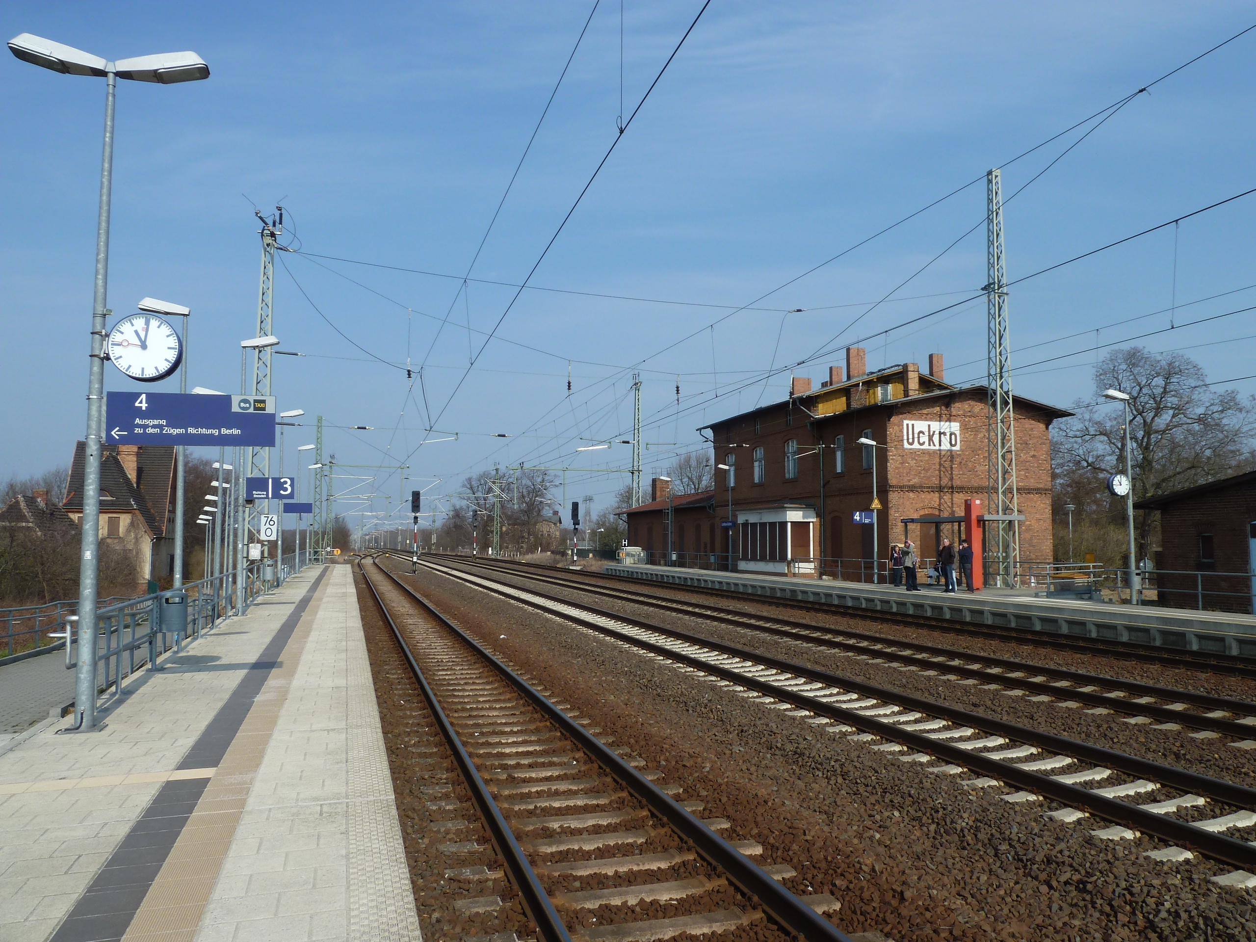 Train station Uckro (today Luckau-Uckro), cultural heritage, platforms of the Berlin-Dresdener Eisenbahn.